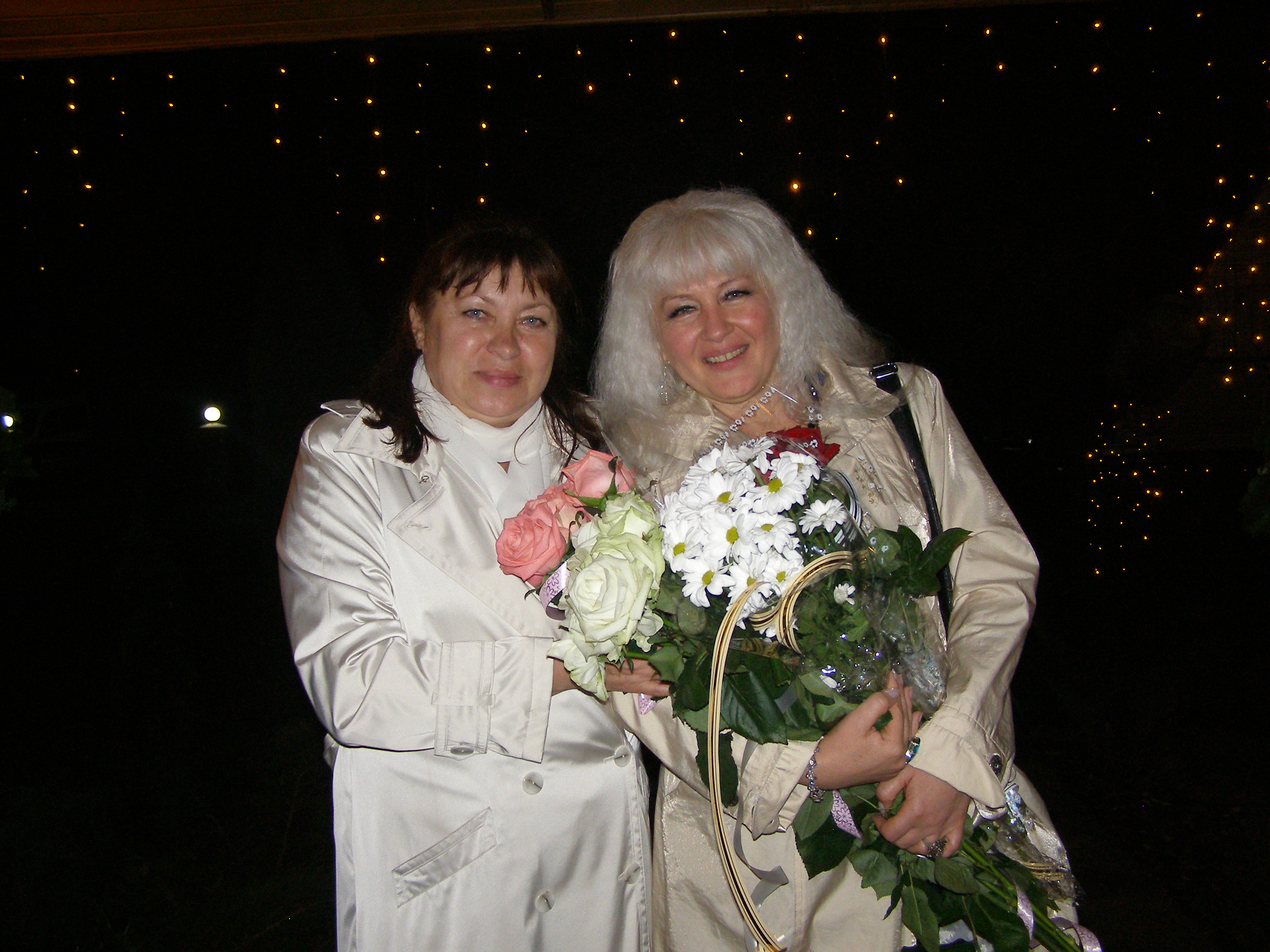 writers